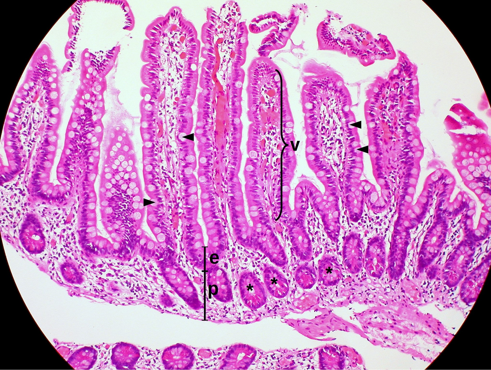 Normal Small Intestine Mucosa Pathological and histological images courtesy of Ed Uthman at flickr.